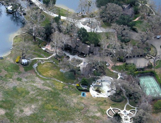 Aerial view of Michael Jackson's Neverland Ranch near Los Olivos, California. Looking toward the South, the main carnival ride area is to the North. Larger and different aerial photos I've taken of the estate may be found here.